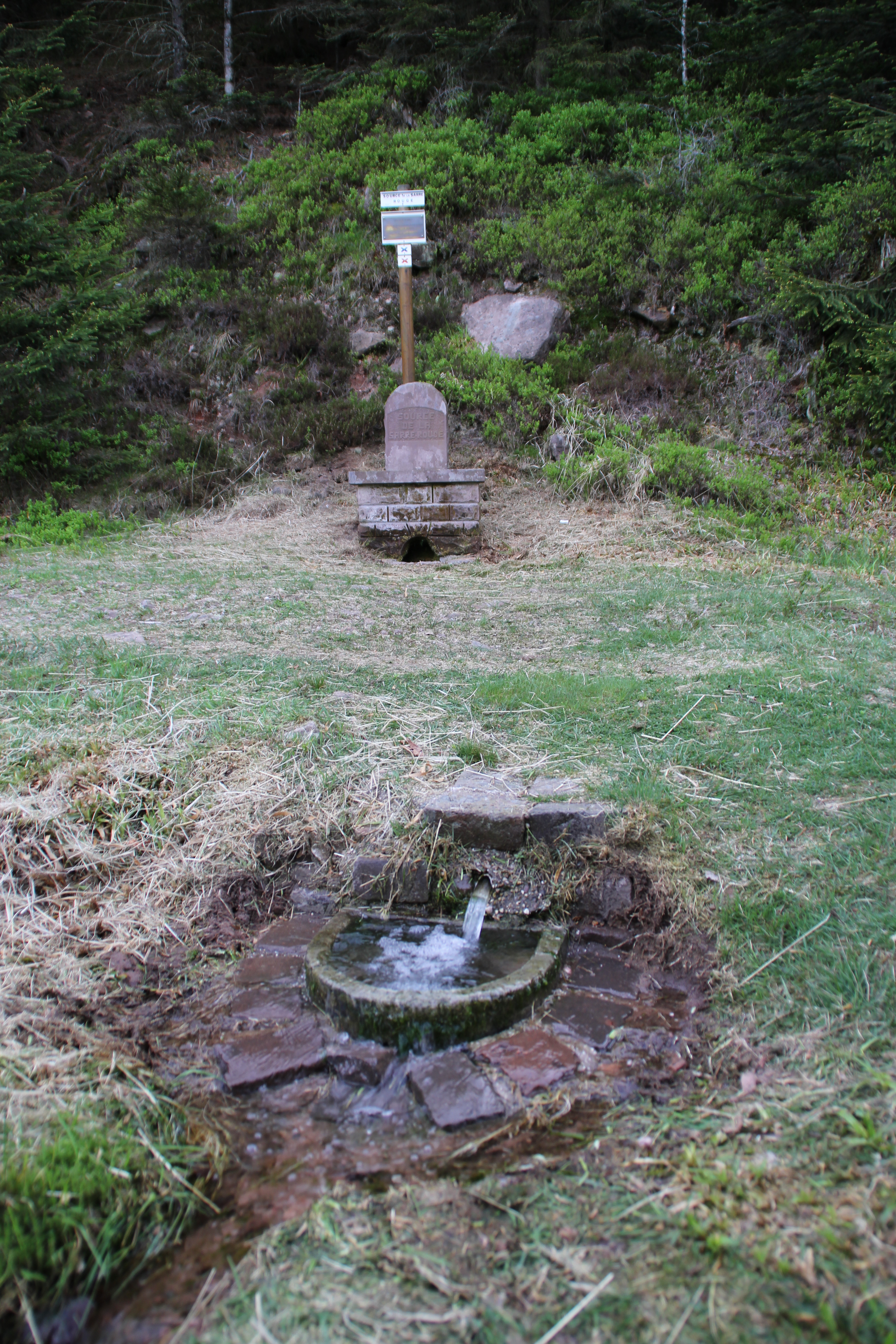 The spring of the Red Saar on the Mont Donon, France